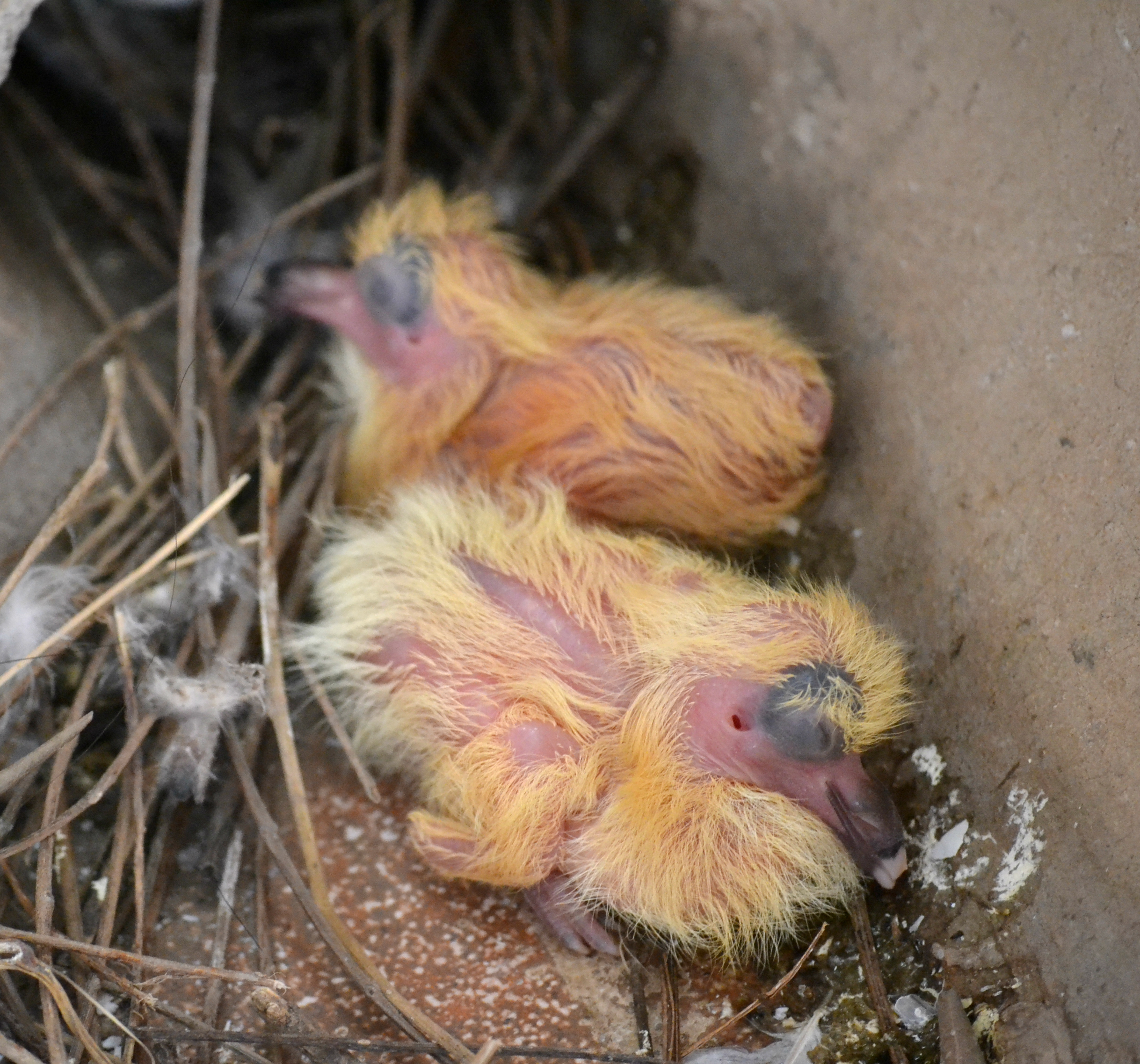 1 day old squabs